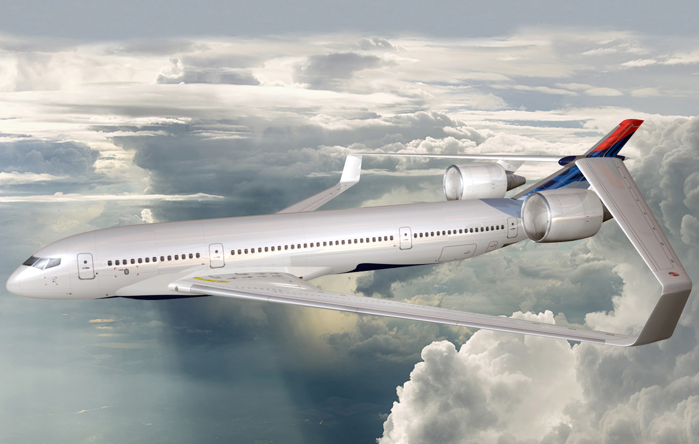 Lockheed Martin's advanced vehicle concept proposes a box wing design, which is now feasible thanks to modern lightweight composite (nonmetallic) materials, landing gear technologies and other advancements. Its Rolls Royce Liberty Works Ultra Fan Engine achieves a bypass ratio (flow of air around engine compared to through the engine) nearly five times greater than current engines, pushing the limits of turbofan technology to maximize efficiency. This design is among those presented to NASA at the end of 2011 by companies that conducted NASA-funded studies into aircraft that could enter service in 2025.